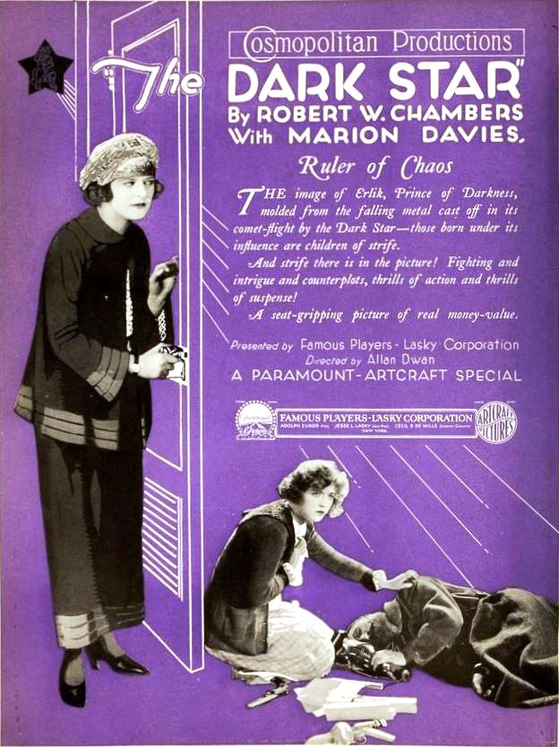 Ad for the American film The Dark Star (1919) with Marion Davies, page 612 of the July 19, 1919 Motion Picture News.